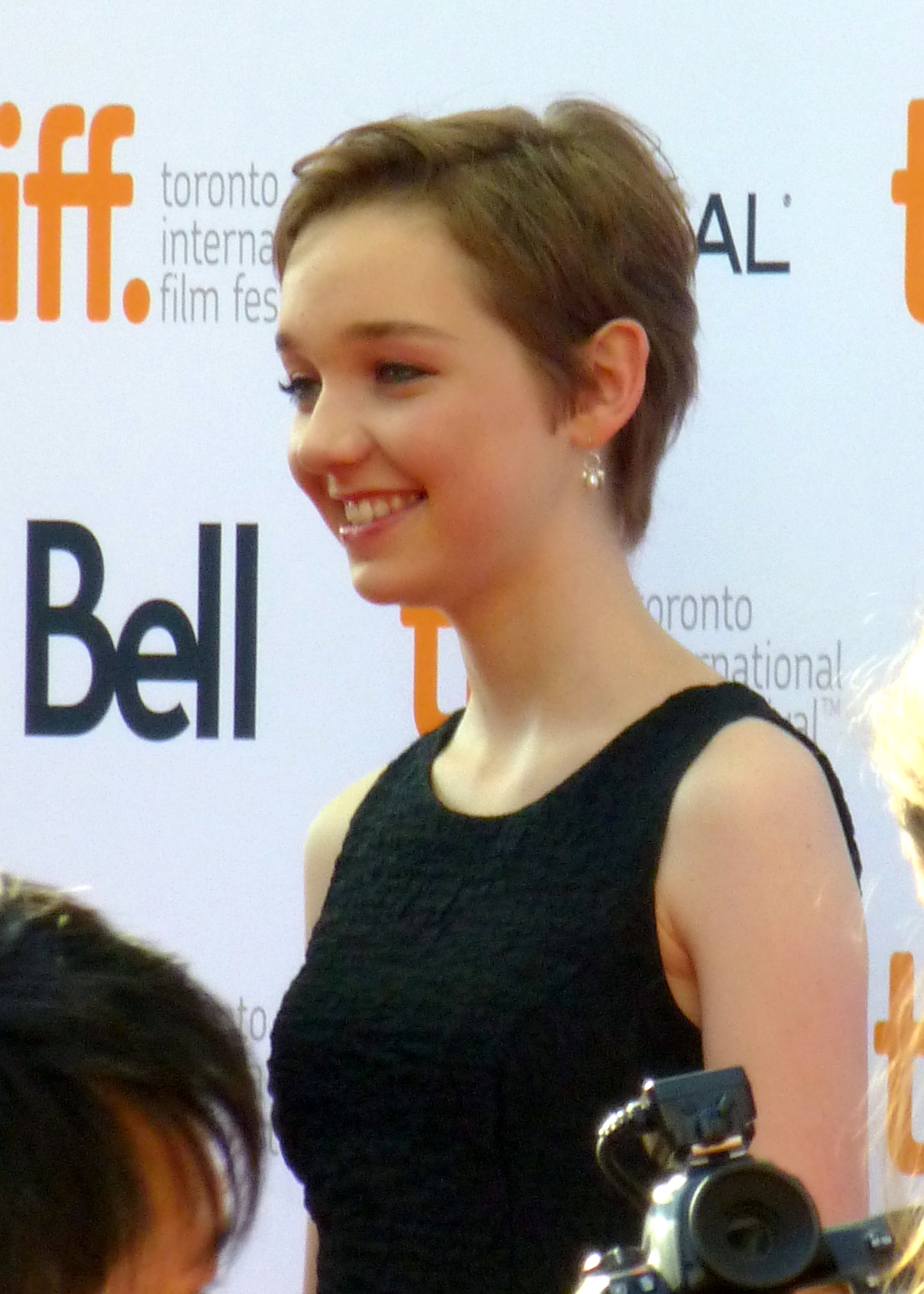 Julia Sarah Stone at the premiere of The Drop, 2014 Toronto Film Festival